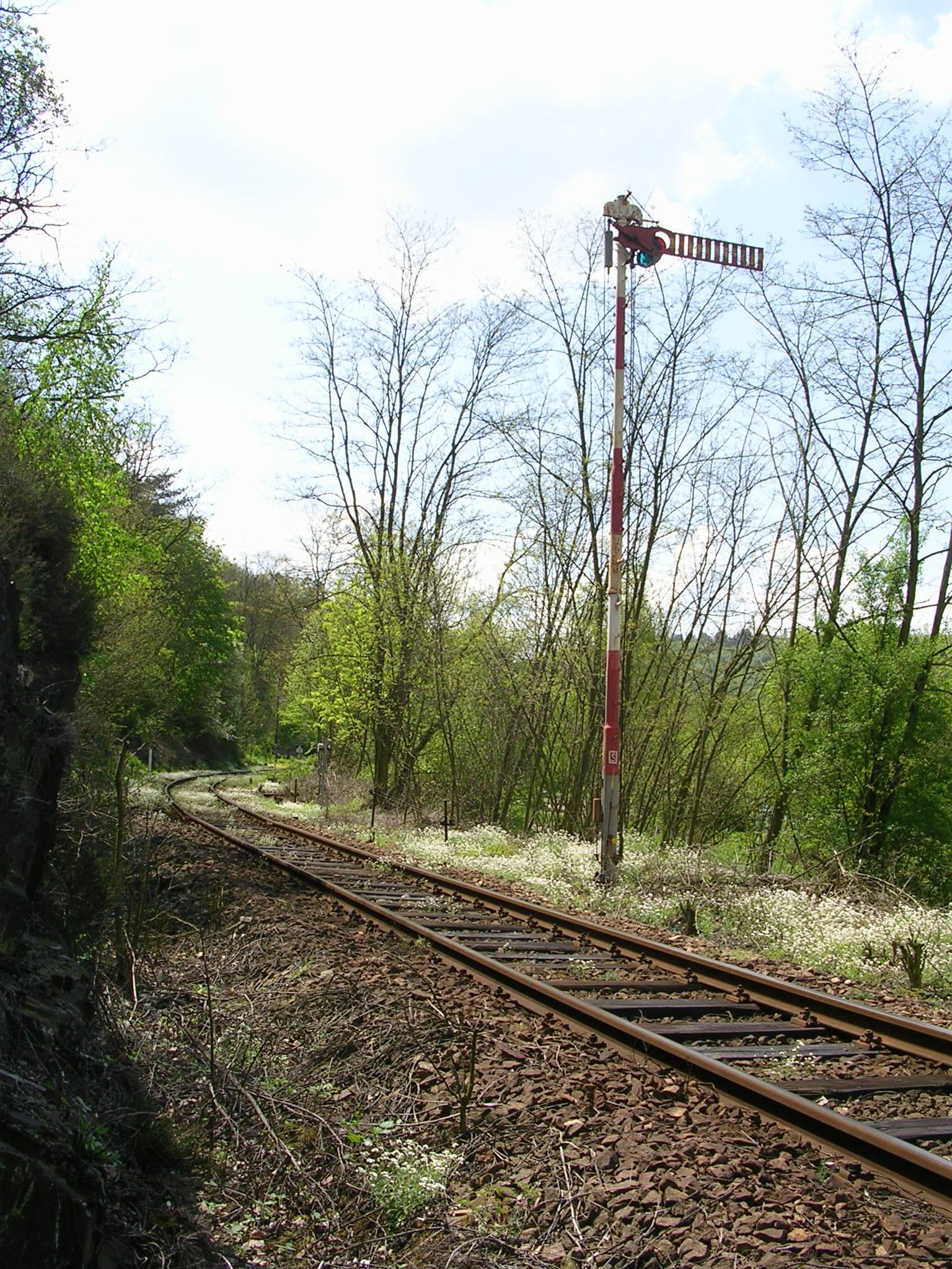 Davle, the Czech Republic.